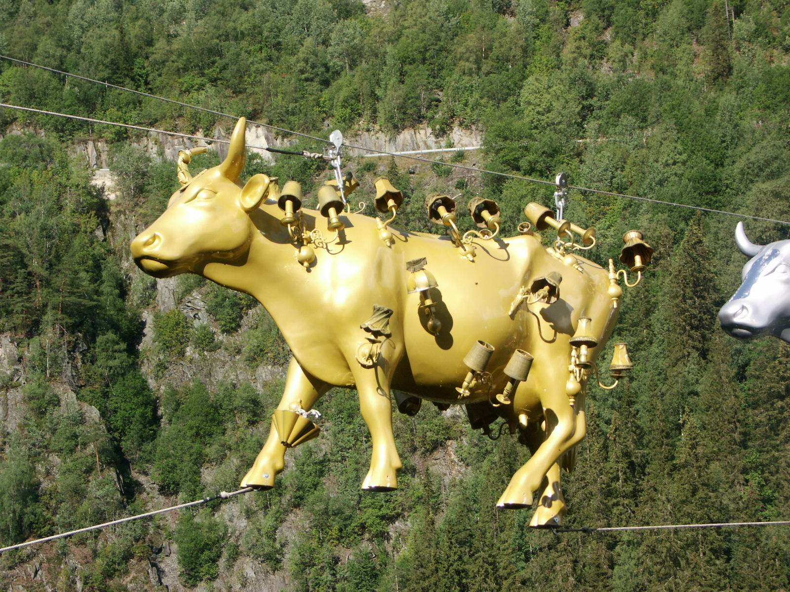 Cow decoration hanging alongside the bridge in Vemork, directly below the NorskHydro station, Rjukan, Telemark, Norway